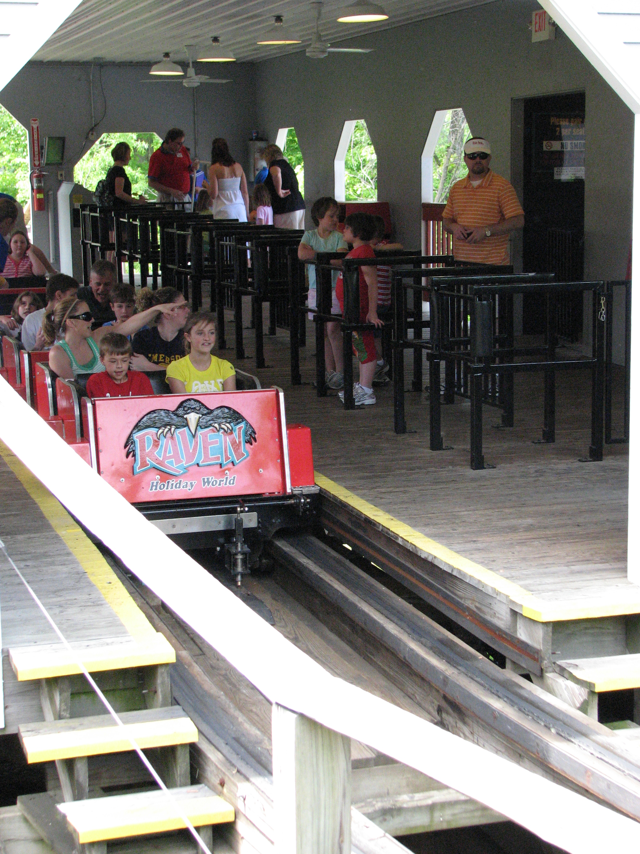 About to take flight on The Raven